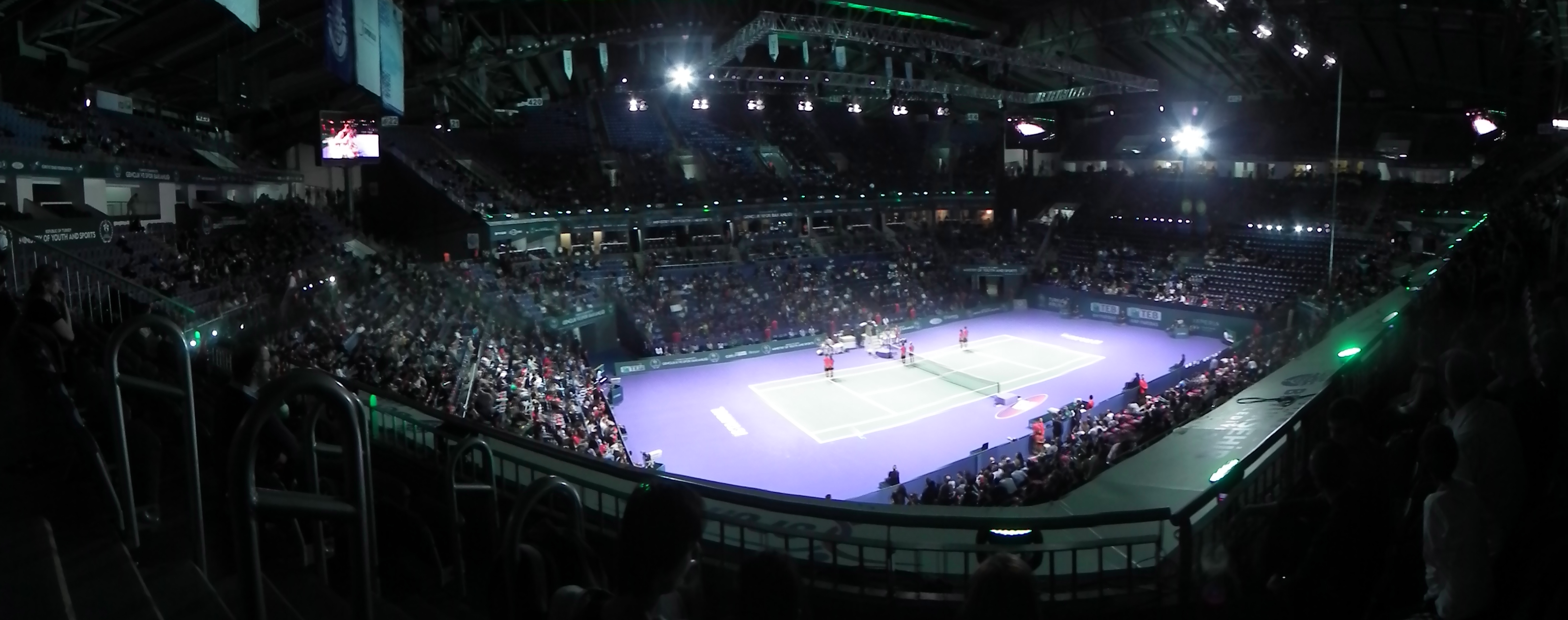 Photo from 2011 WTA Tour Championships at Sinan Erdem Dome, Istanbul